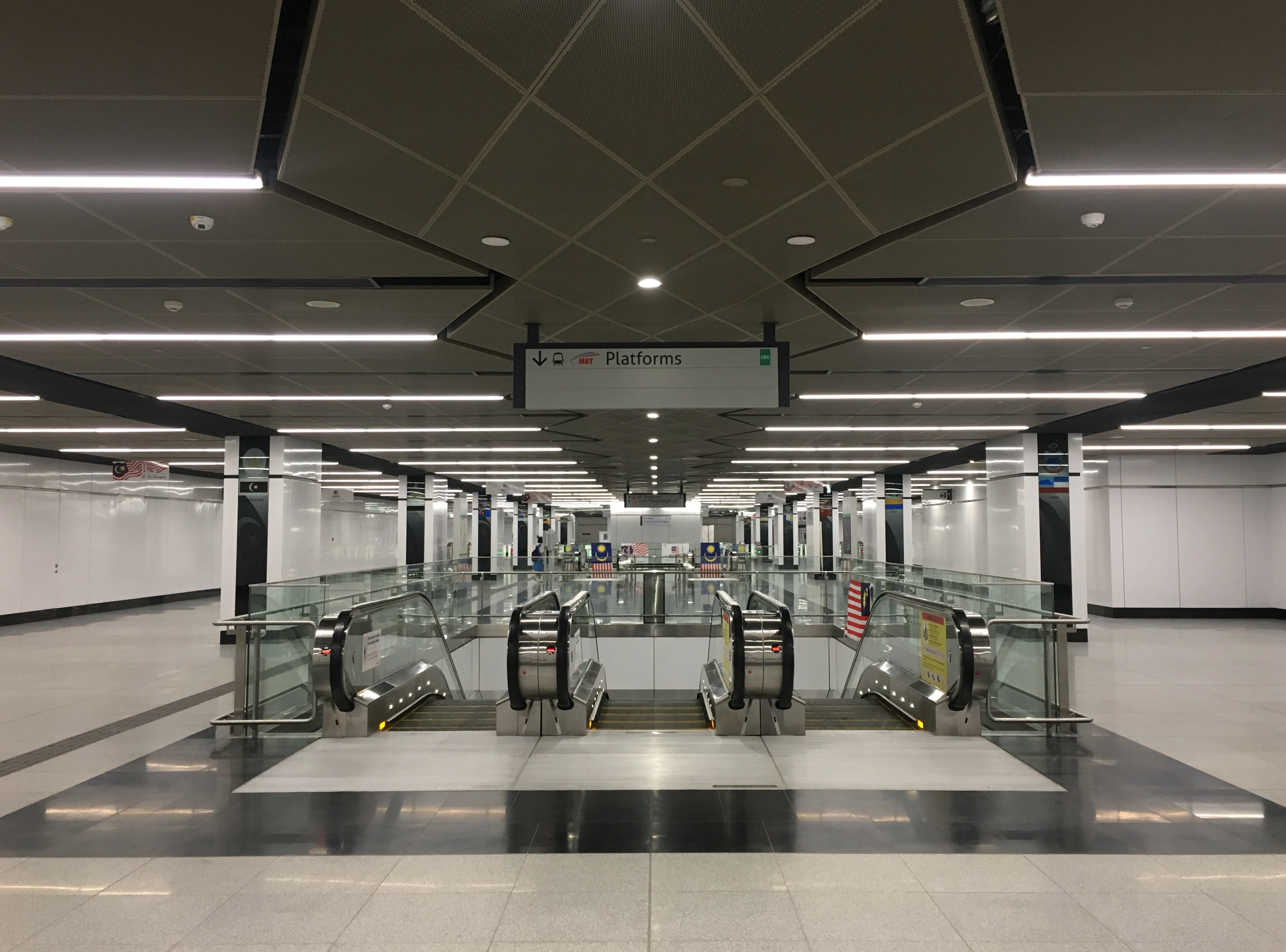 Flags and emblems of Malaysian states on the pillars at the Lower Concourse Level of the Merdeka MRT Station.